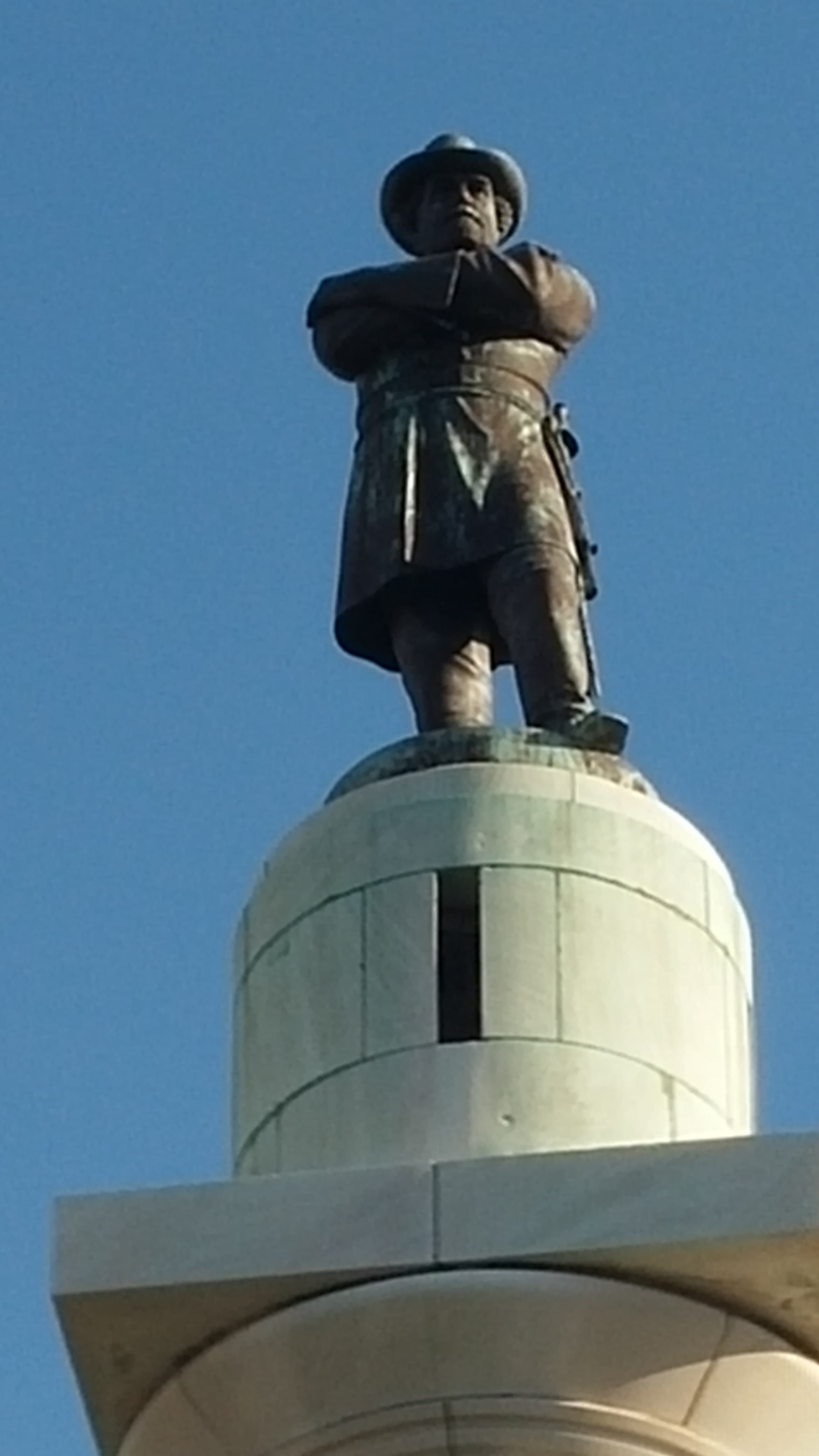 Robert E. Lee Monument closeup, Lee Circle, New Orleans, Louisiana